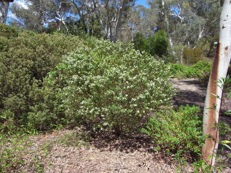 Philotheca myoporoides subsp. acuta habit in the Australian National Botanic Gardens, A.C.T.